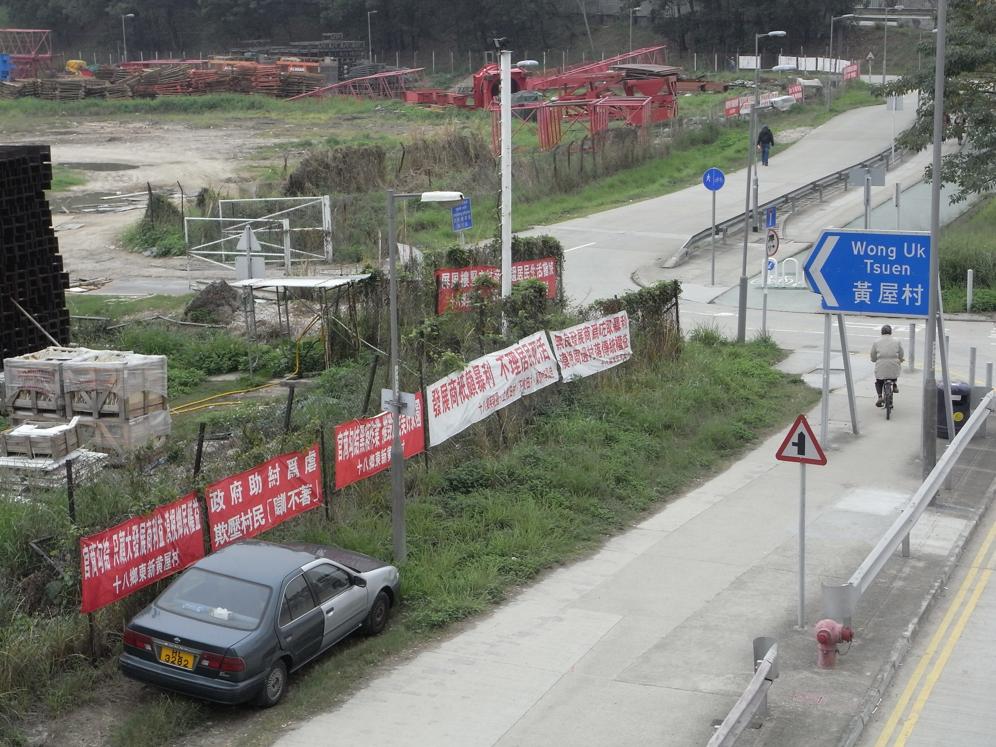 元朗 黃屋村入口方向